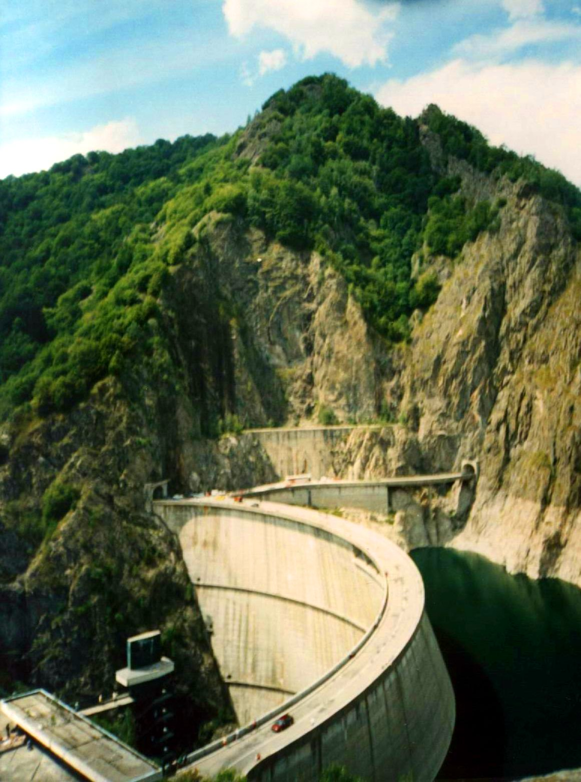 The Vidraru Dam, on the Argeş river valley, Romania